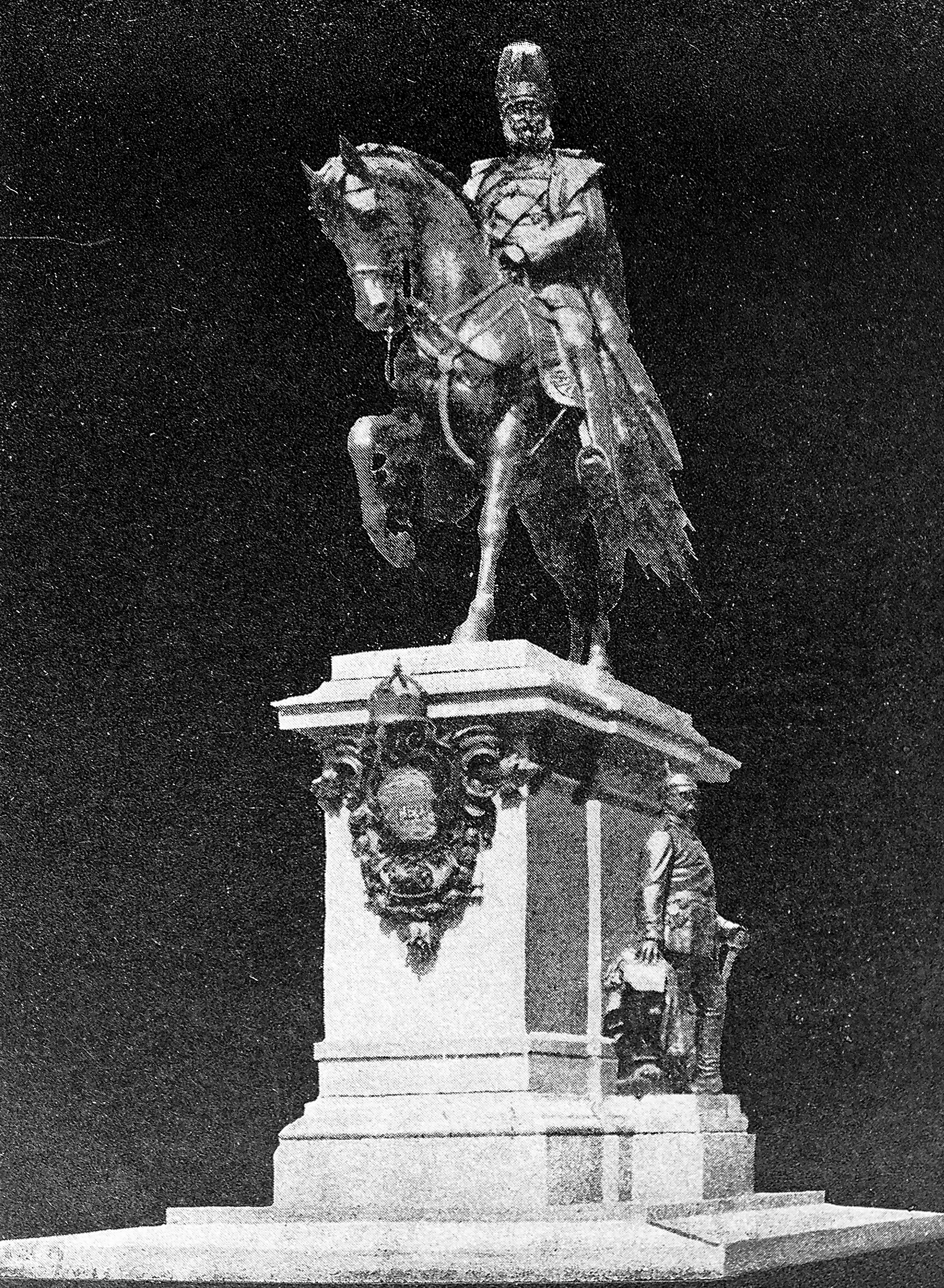 Memorial to Emperor Wilhelm I. of Germany in Görlitz, unveiled in 1893, sculpted by Johannes Pfuhl, destroyed